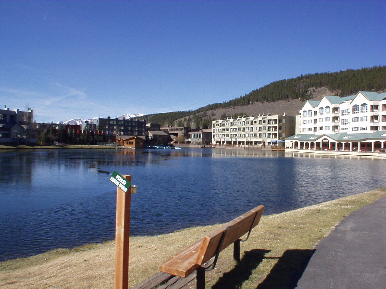 Keystone Resort with Lake